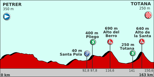 Profile of the 3rd stage: Vuelta a España 2011